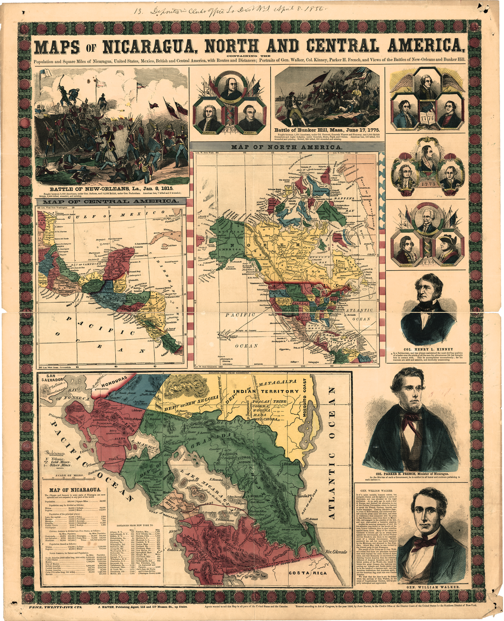 This map reflects the tangled history of relations between the United States and Central America. In 1855-57, the American adventurer William Walker established himself as the dictator of Nicaragua with the help of disaffected Central Americans and a motley assortment of fellow adventurers from the United States. Walker had in mind the formation of a Central American federation with himself as leader. As a Southerner, he also was suspected of wanting to extend American slavery to new territories outside the United States. France and Britain, which had interests in Central America, opposed his schemes, as did many people in the United States and Central America. His plans ultimately ruined, on September 12, 1860, Walker was executed by a Honduran firing squad. The scenes on the map from the battles at Bunker Hill and New Orleans are not directly relevant to its subject, but reflect the nationalistic fervor of Walker’s supporters in the United States. Central America